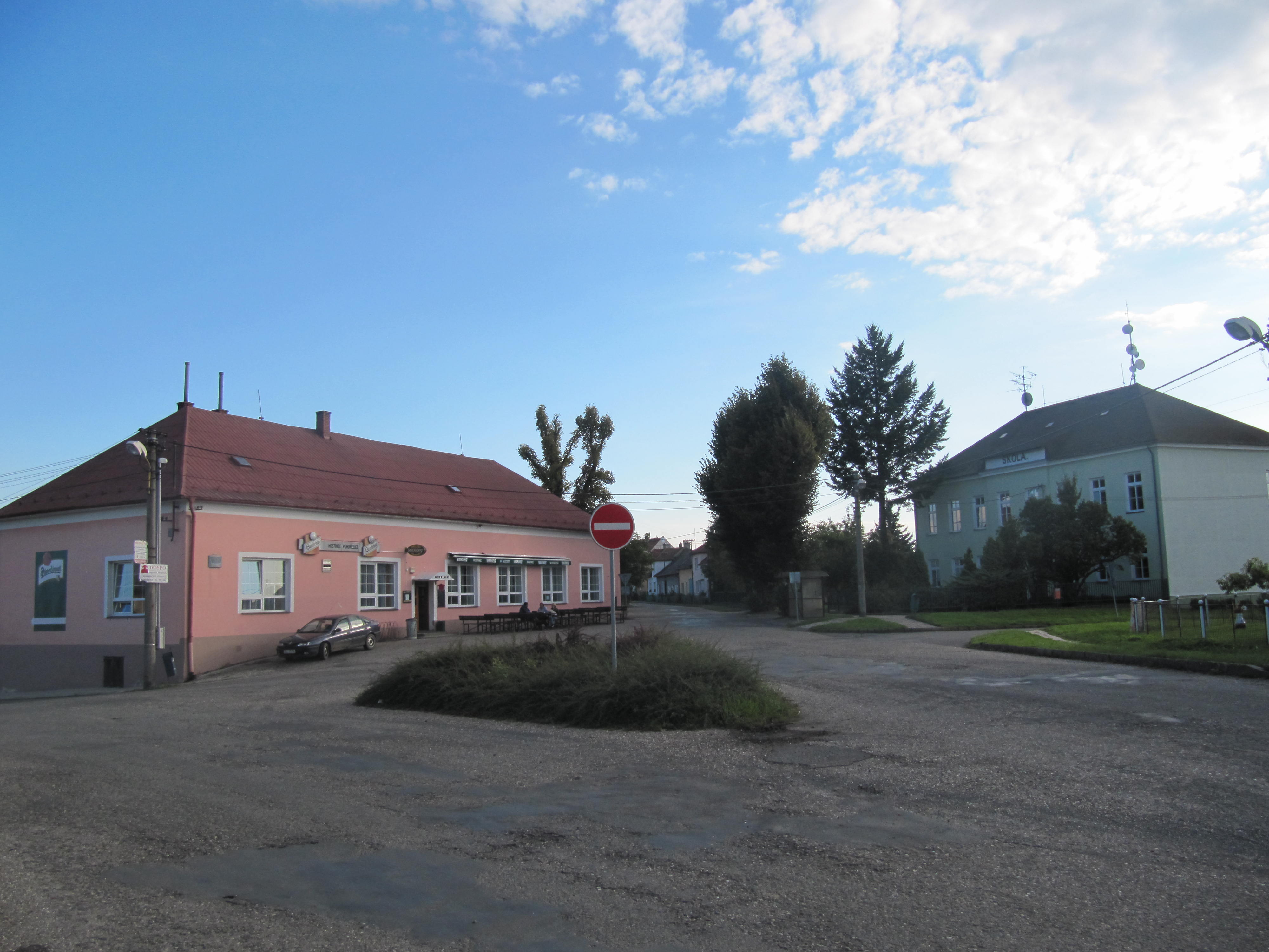 Pohořelice in Zlín District, Czech Republic. Crossroad with pub and school.